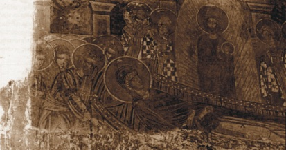 Fresco in St Athanasius Church in Fourka, Greece.